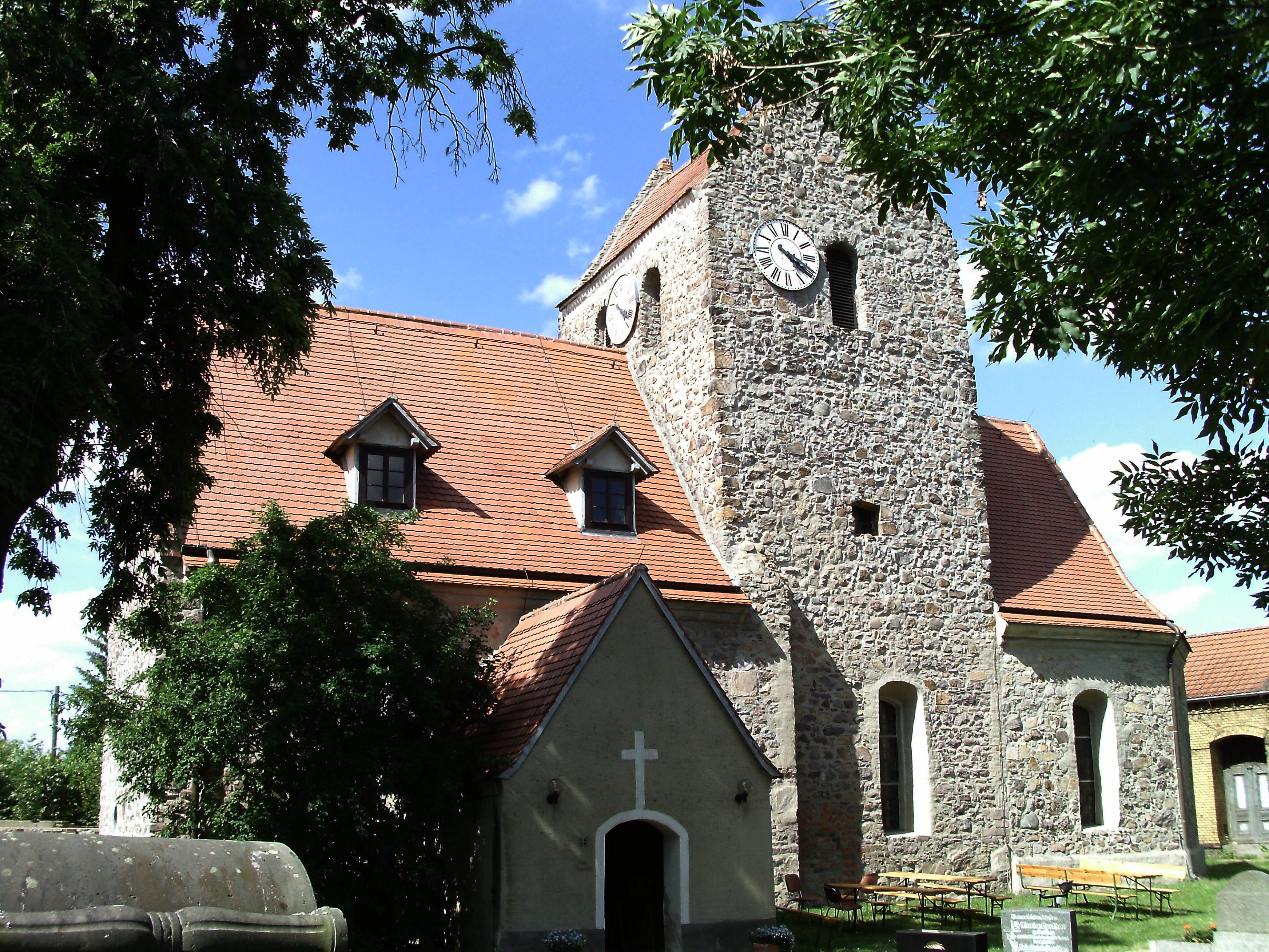 Zaasch church from the south (Neukyhna, Nordsachsen district, Saxony)